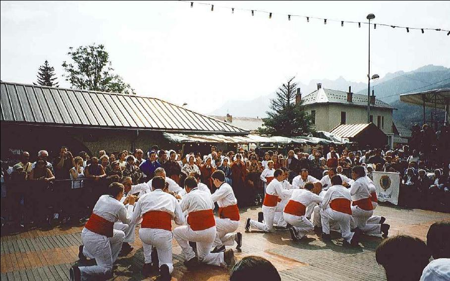 Sword folk dance of the Bacchu-ber in the locality of Pont-de-cervières, in Briançon city (Hautes-Alpes, France)